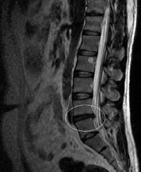 MRI Scan of Lumbar Disc Herniation